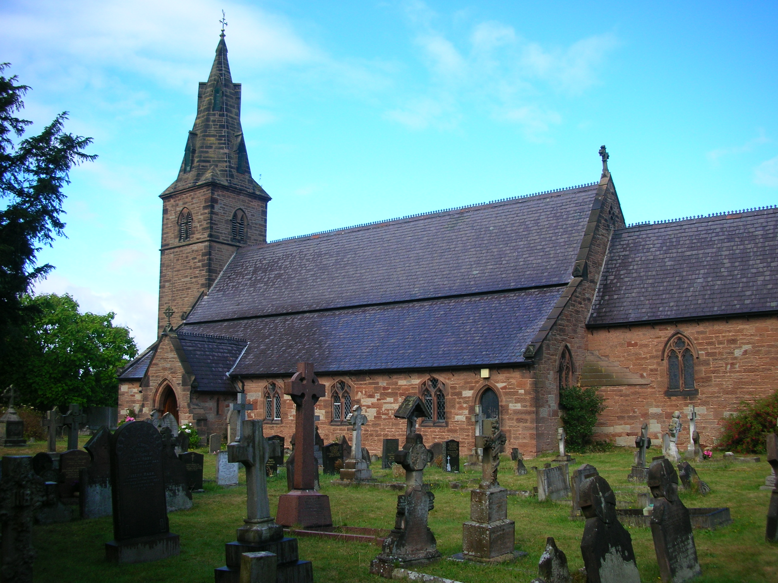 Roman Catholic church of St Mary, Brewood, Staffordshire, England by A. W. N. Pugin. listed. Photographed by me, 10 August 2006. Oosoom